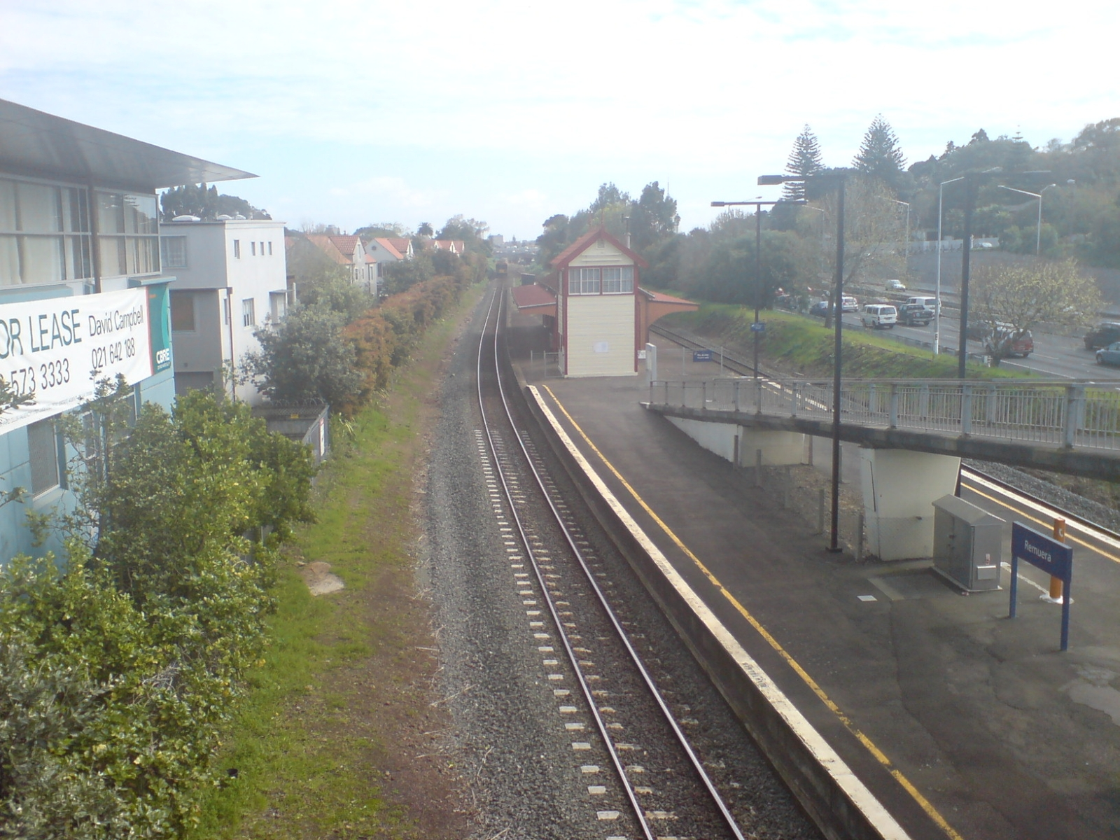 Remuera Train Station in Auckland, New Zealand. Looking west at the restored signal box from Market Road overbridge.